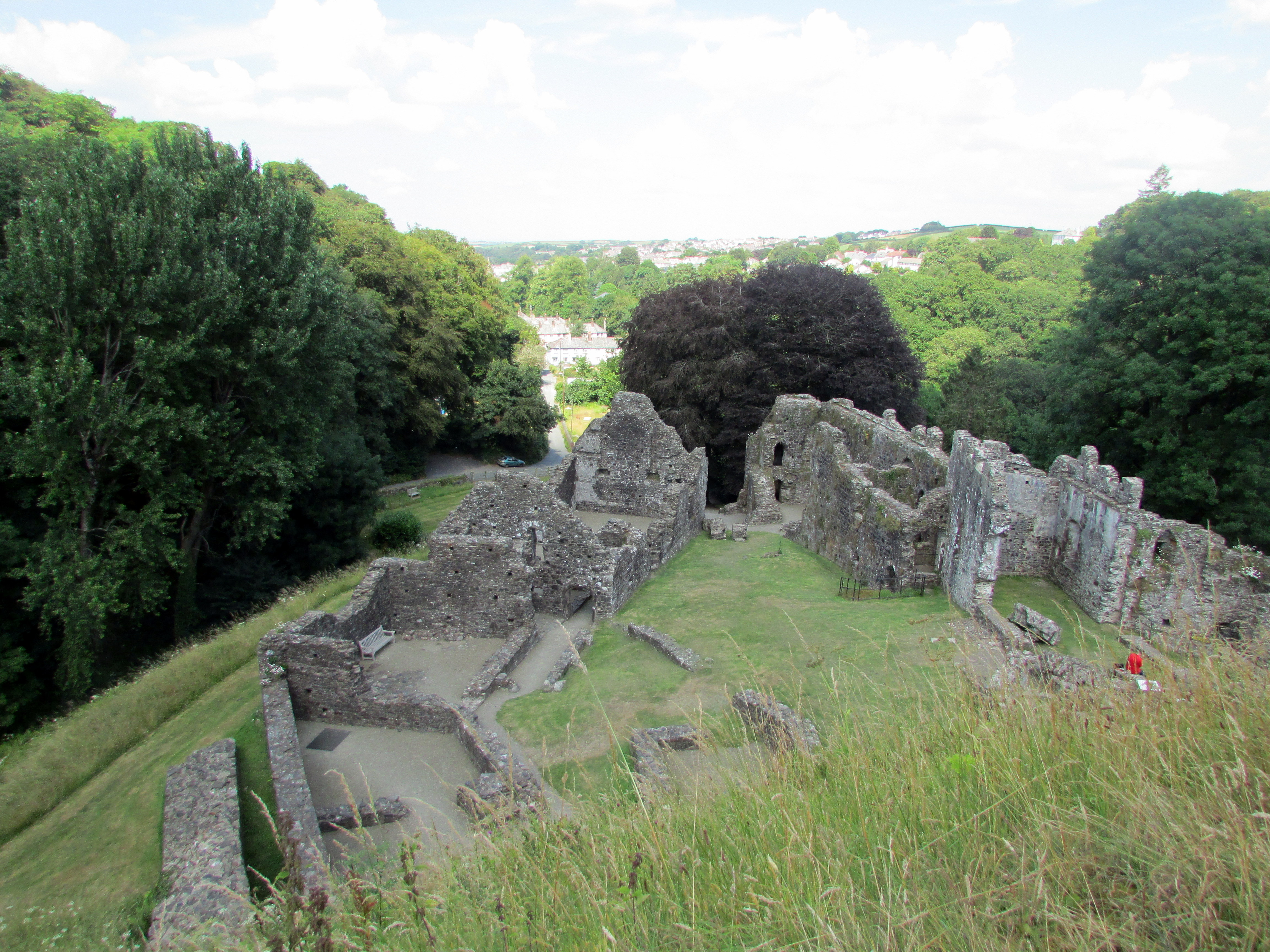 The oldest fabric dates from the C11 with some evidence of C13, much rebuilt and extended in early C14. Further minor additions were made in the late C14 and C15 and the late C17.